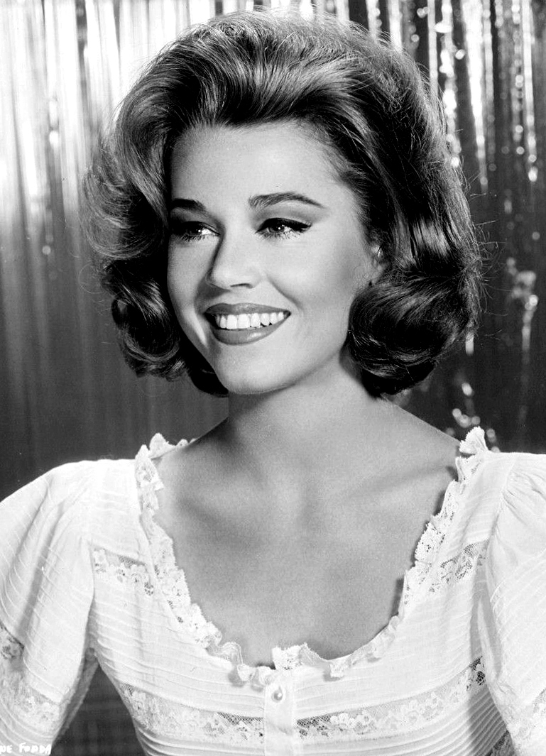 Apparent publicity photo of Jane Fonda for the film Sunday in New York (1963).